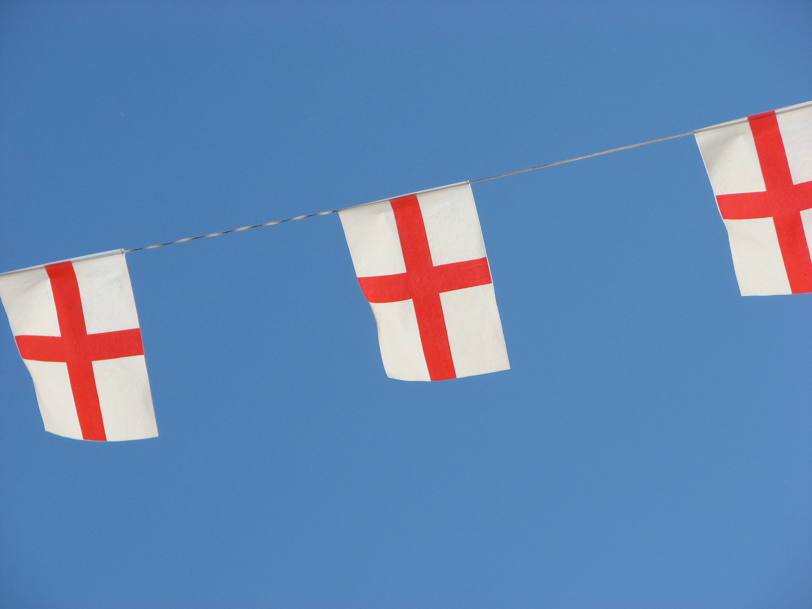 Flag of England bunting.